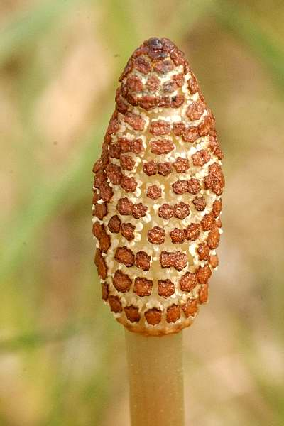 Equisetum arvense from Commanster, Belgian High Ardennes .